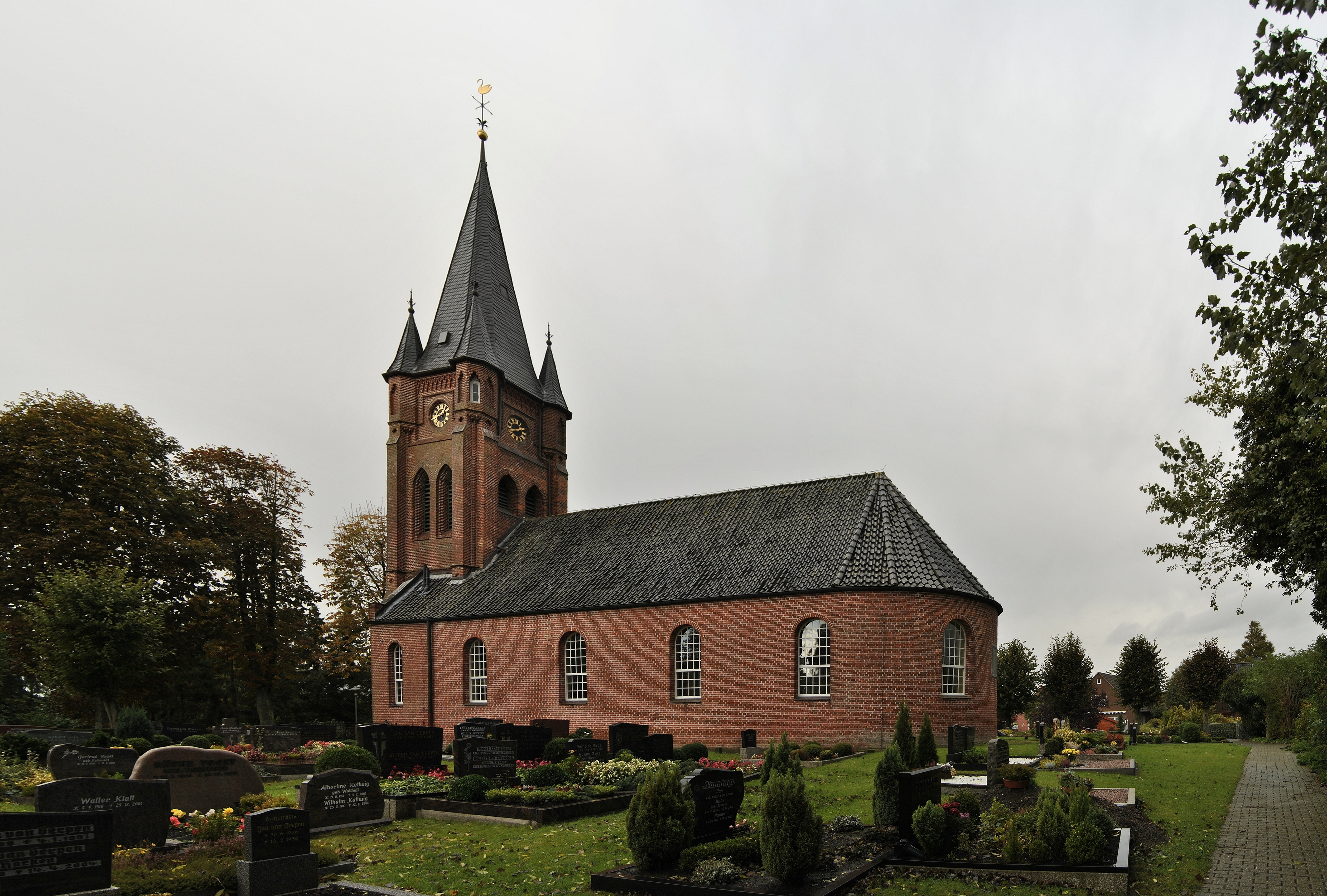 The Evangelical-Lutheran Church of St. Mary („Marienkirche“) of Woquard in Krummhörn, East Frisia (Lower Saxony, Germany) This photograph was taken with a Nikon D3000